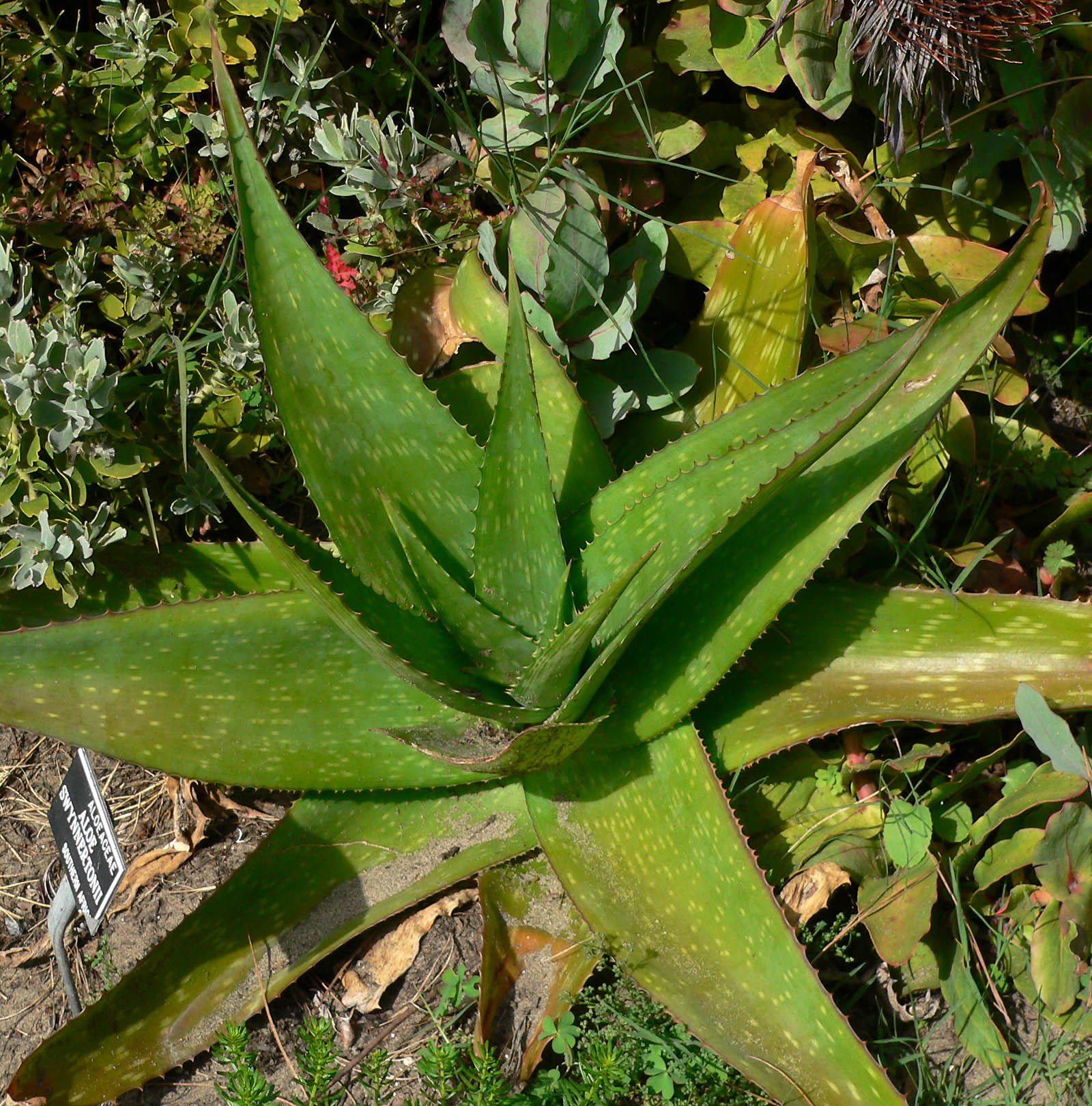 Photo of Aloe swynnertonii at the San Francisco Botanical Garden